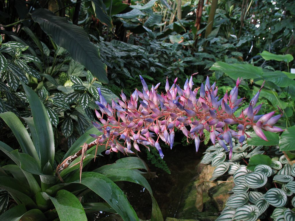 Aechmea fendleri, in cultivation at the Botanical Garden of Heidelberg, Germany.